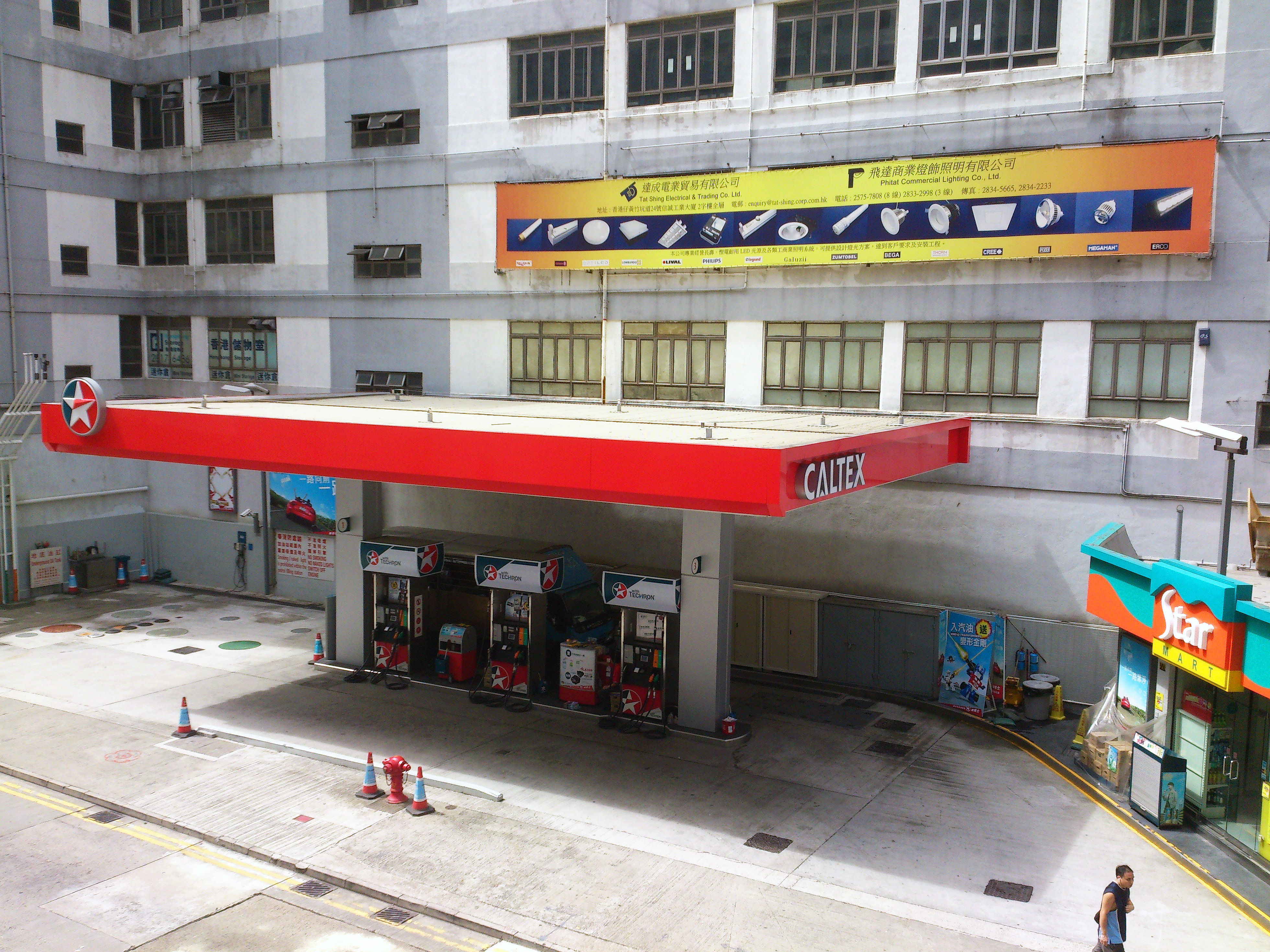 Wong Chuk Hang Caltex petrol station